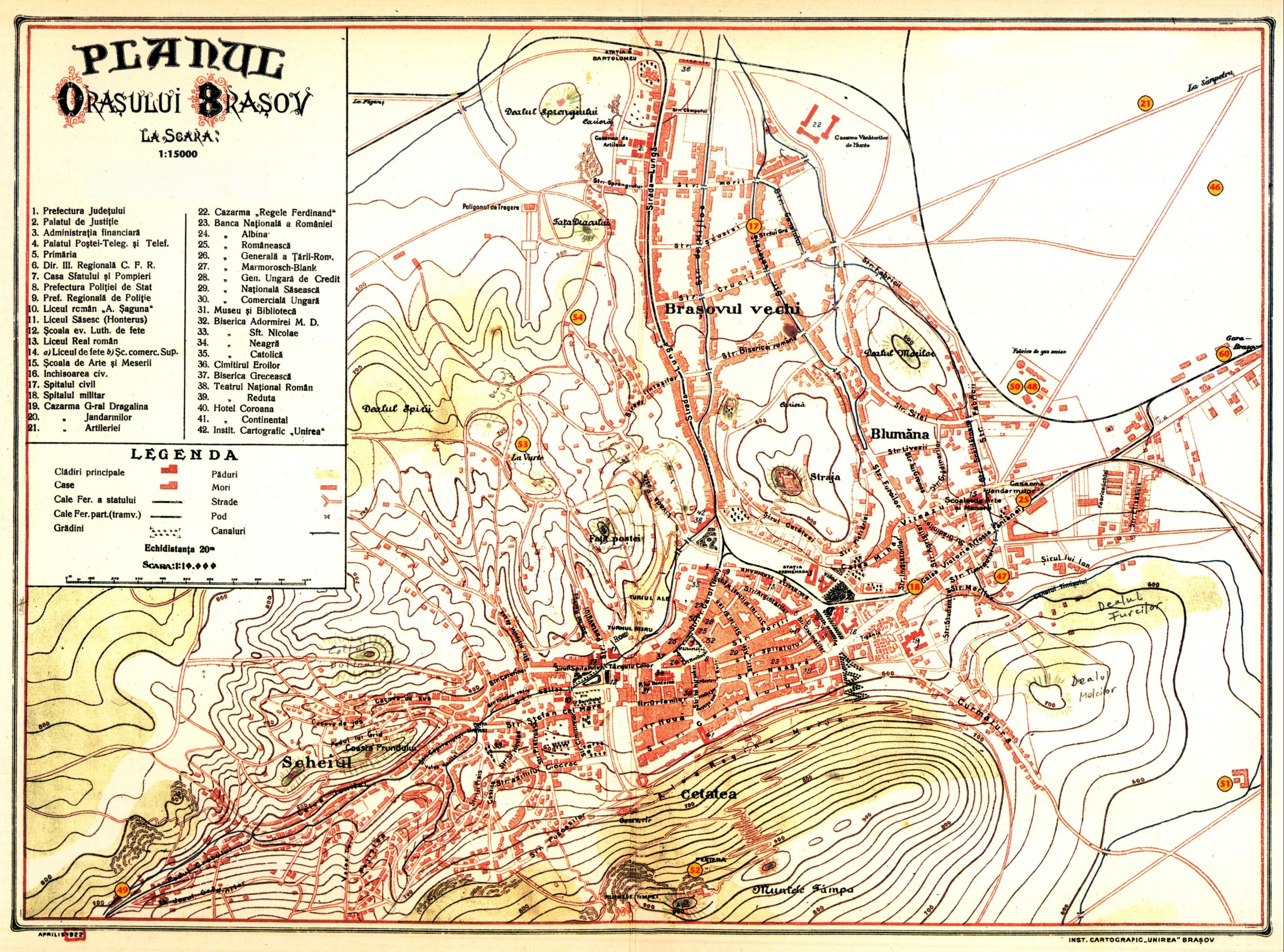 Map of Braşov